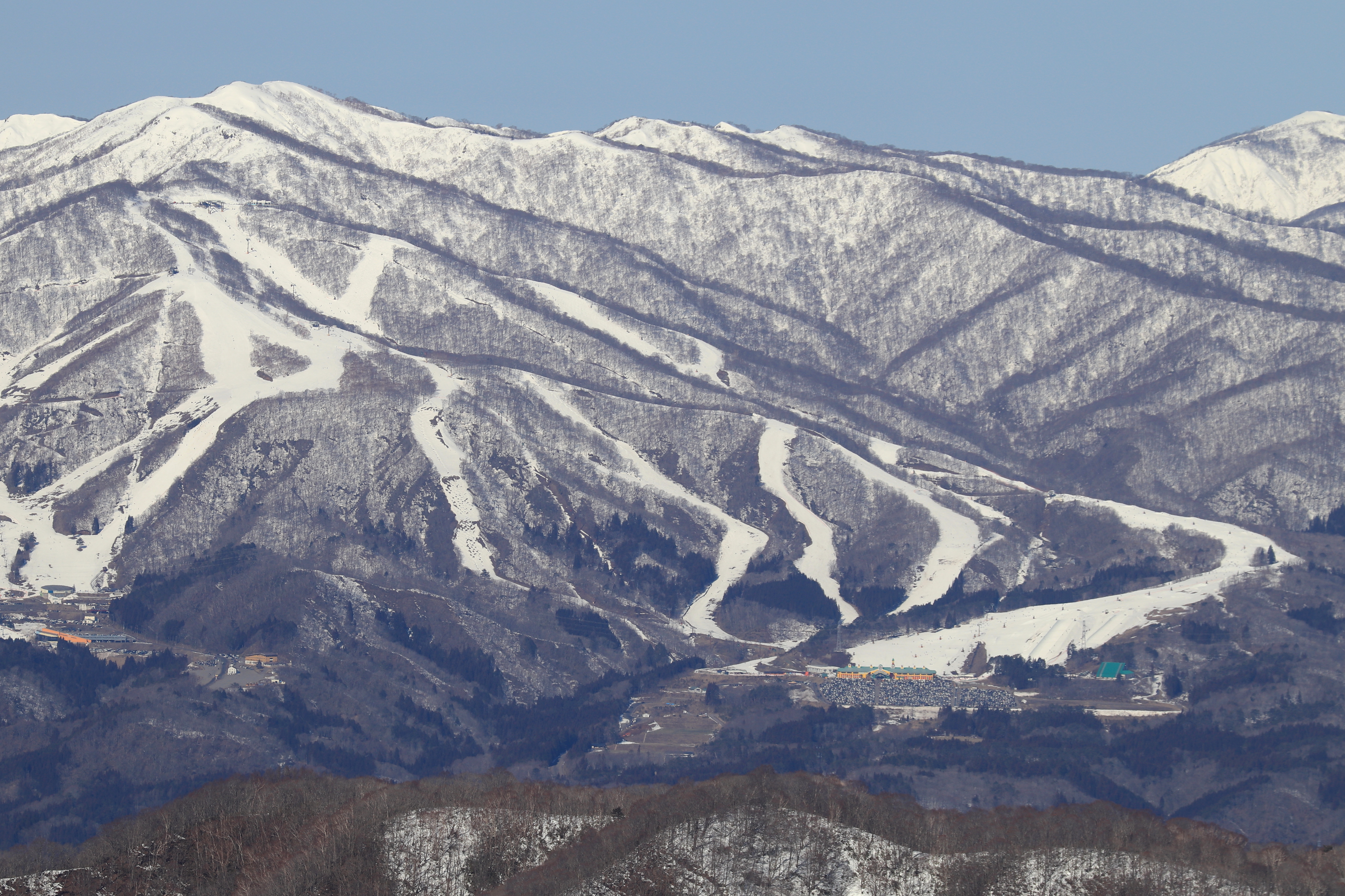 Takasu Snow Park seen from Osanbaba in Gujo, Gifu Prefecture, Japan. Canon EOS Kiss X9